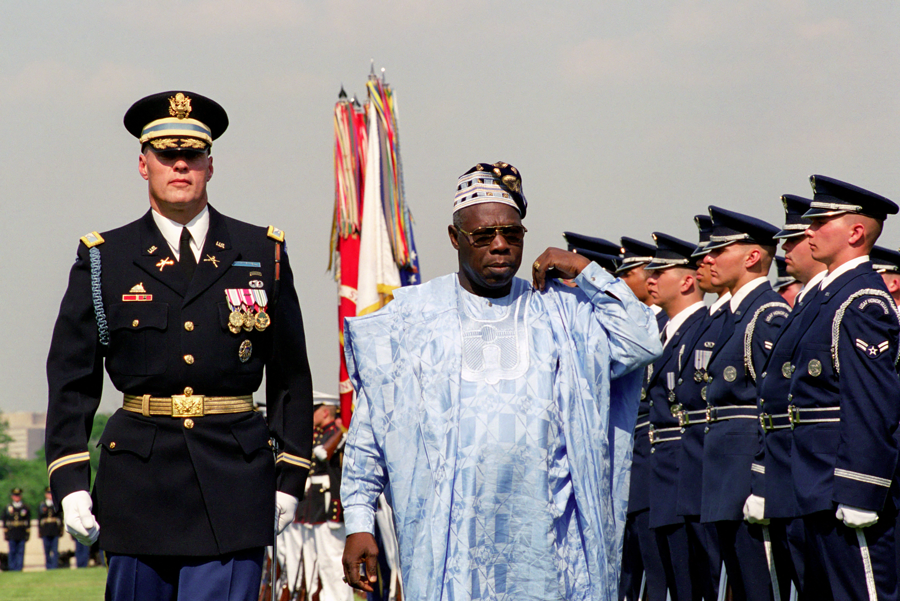 President Matthew Olusegun Aremu Obasanjo (center, right), Federal Republic of Nigeria, participates in a Full Honor Arrival Ceremony hosted by the Honorable Donald H. Rumsfeld (not pictured), U.S. Secretary of Defense, at the River Entrance of the Pentagon, Washington, D.C., May 10, 2001.